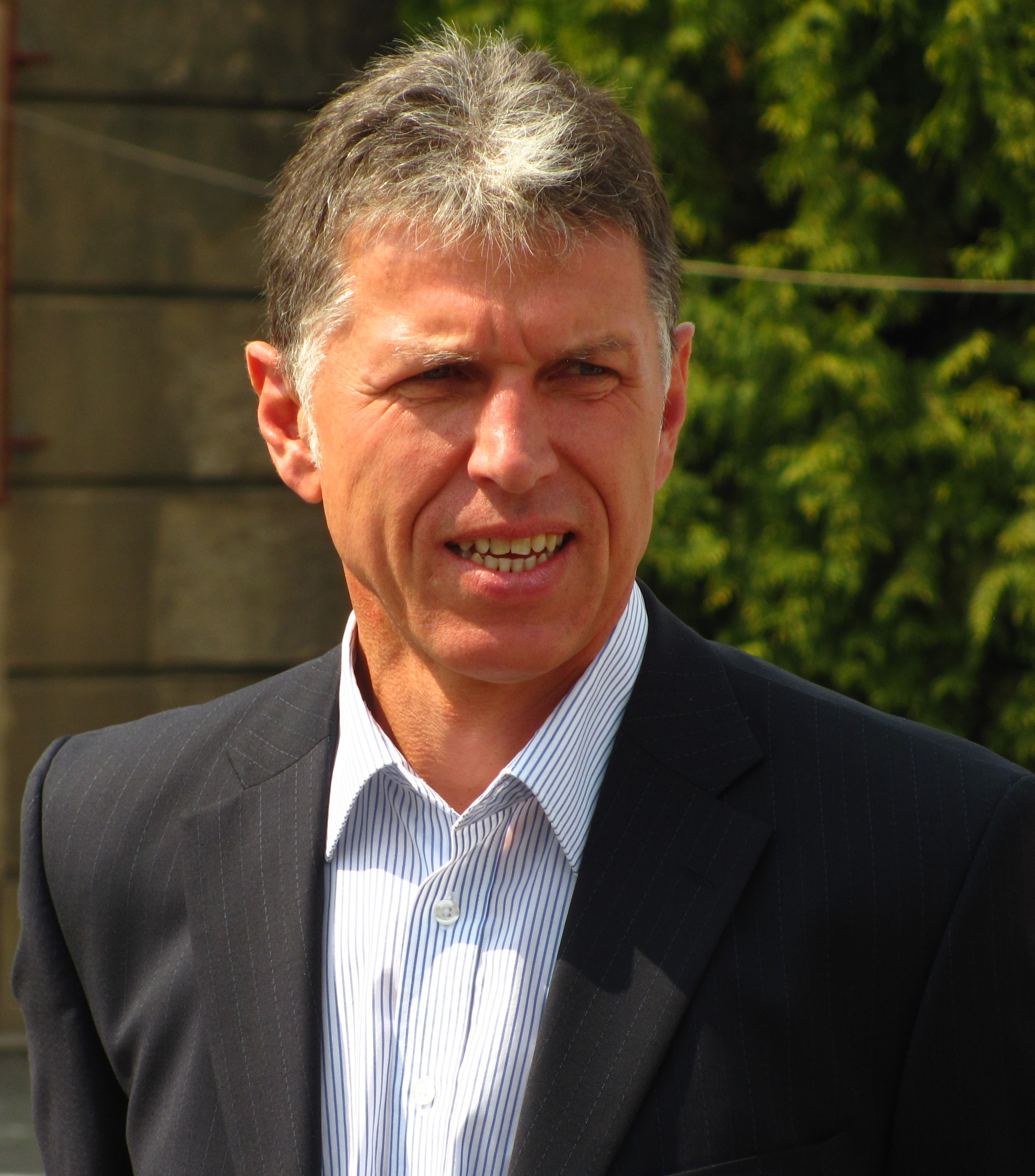 Jaroslav Šilhavý, Czech footballer (2012)